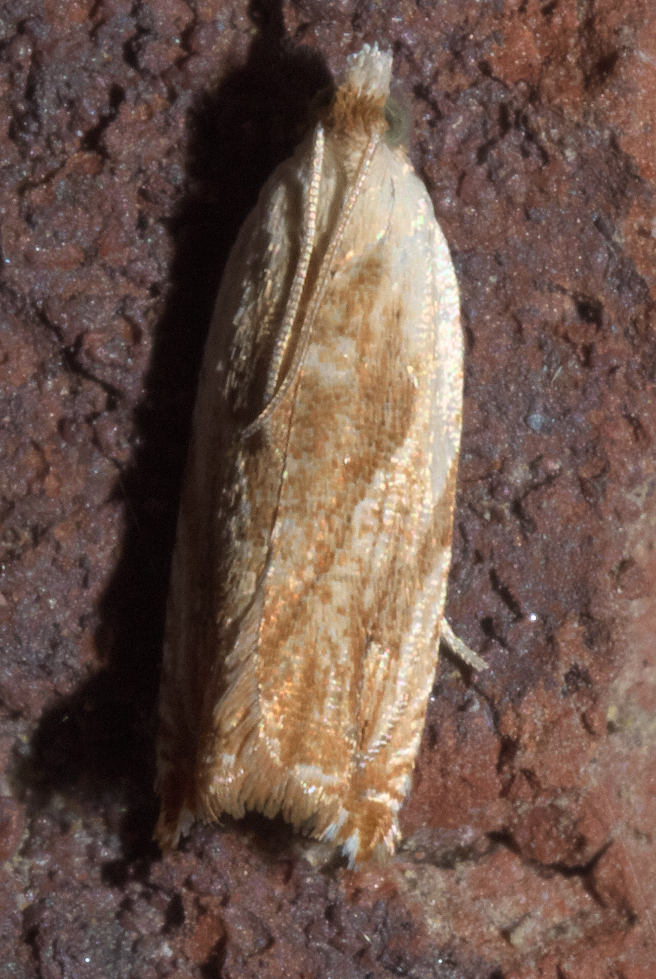 Ancylis platanana, Hodges #3370, ID Confidence: 88